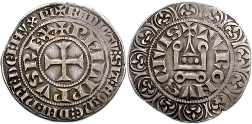 Kings of France. Philip III of France, the Bold (le Hardi). 1270-1285. AR Gros Tournois à l'O rond (25mm, 4.10 gm, 7h). + BHDICTV: SIT: NOmE: DNI: nRI: DEI: IhV. XPI, + PhILIPPVS REX (four pellets around X), short cross pattée TVRONVS CIVIS (pellet in N), châtel tournois; border of twelve lis. Duplessy 202 var. (pellets); Van Hengel 107.01; De Mey, Gros 74 (Philip IV); Ciani 202; Roberts 2461 (Philip IV). Coins of France